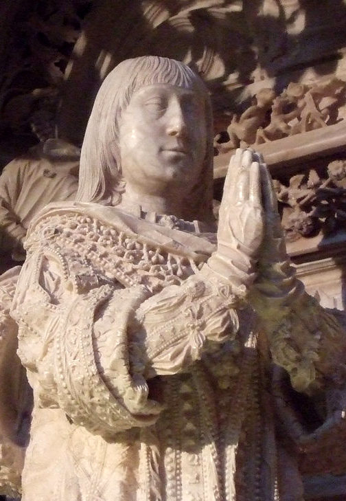 Alfonso of Castile